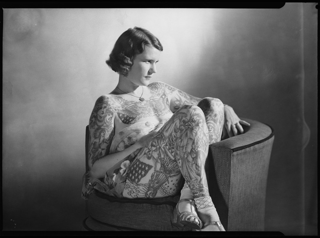 Betty Broadbent, the 'Tattooed Venus', Sydney, 1938, photographer Ray Olsen, Pix Magazine, State Library of New South Wales ON 388/Box 033/Item 171